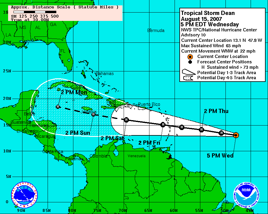 Forecast 5-day track of Tropical Storm Dean (2007)